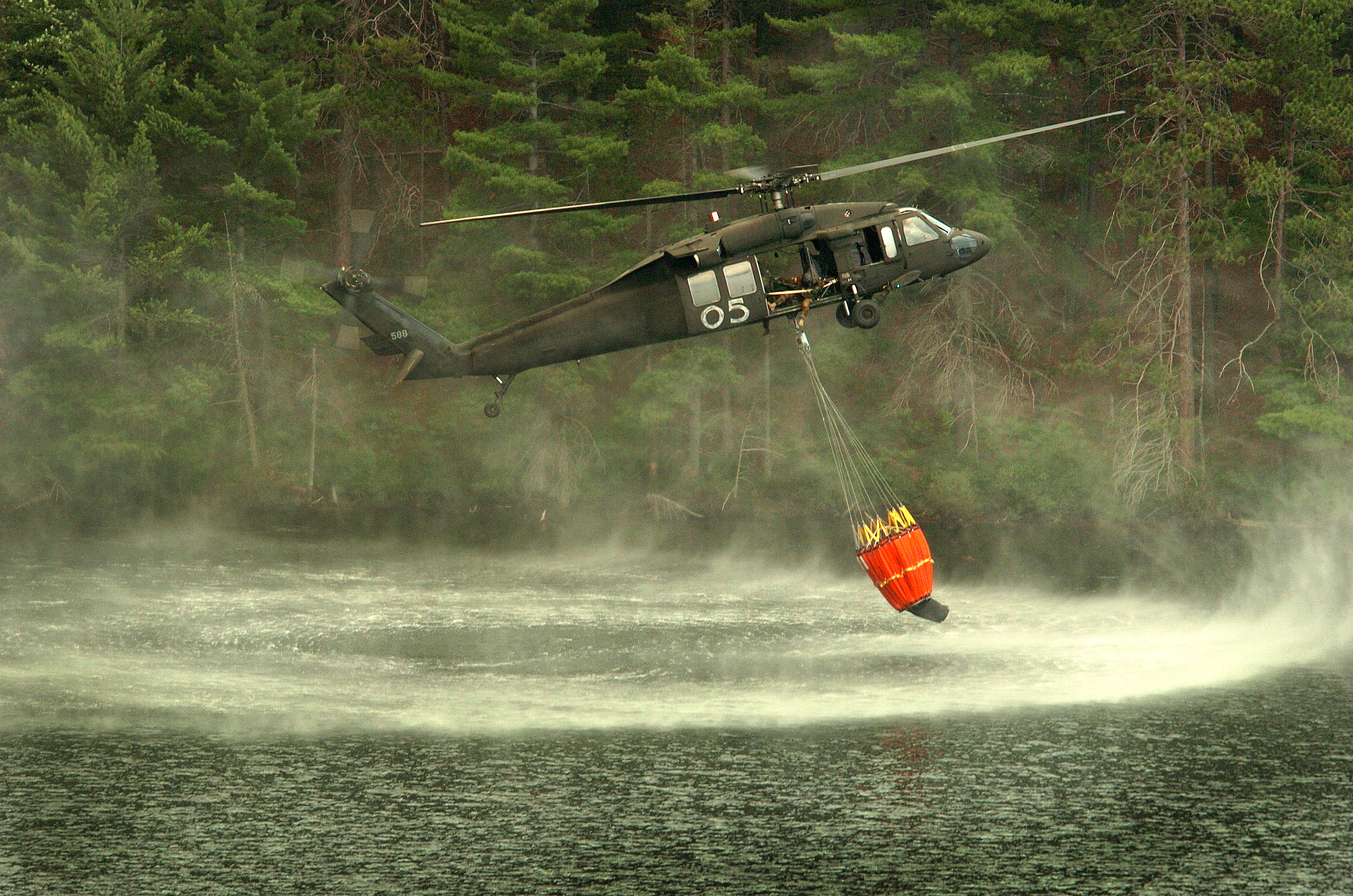 A Michigan Army National Guard UH-60 Black Hawk helicopter dips a Bambi Bucket into a lake for water to fight a wildfire near Tahquamenon Falls State Park, Mich., on Aug. 8, 2007. DoD photo by Staff Sgt. Helen Miller, U.S. Army.